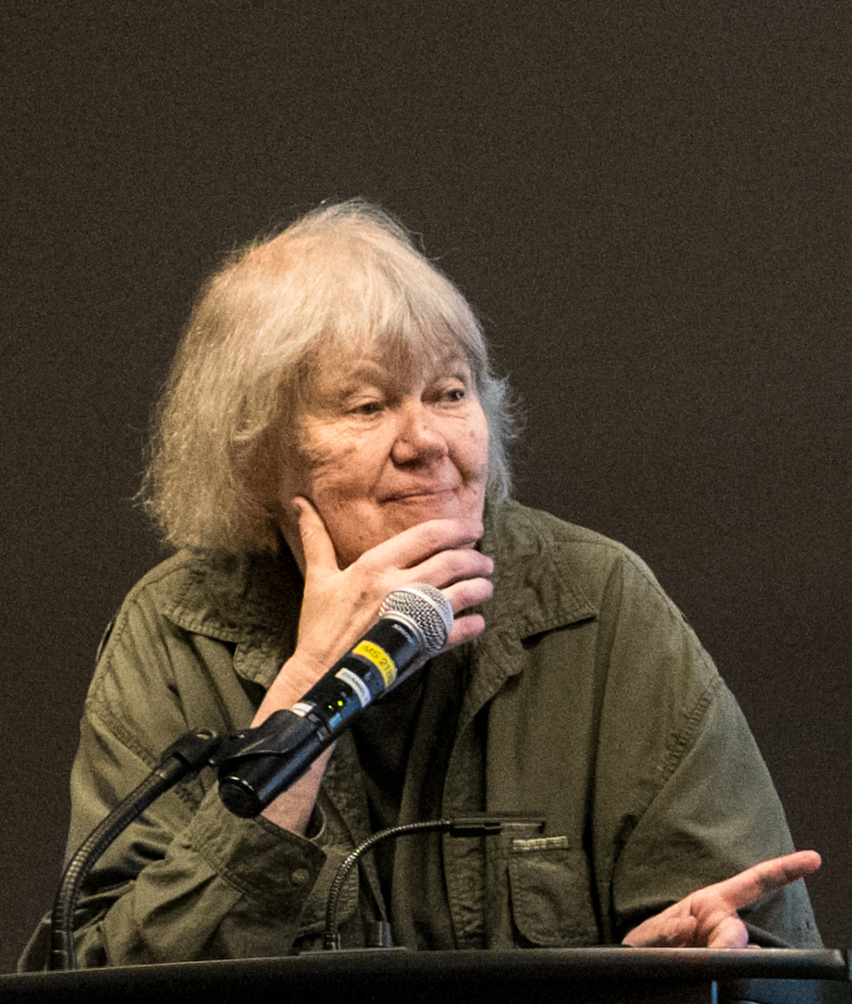 2020-02-10 Jean Barman Book Lecture (University of the Fraser Valley)